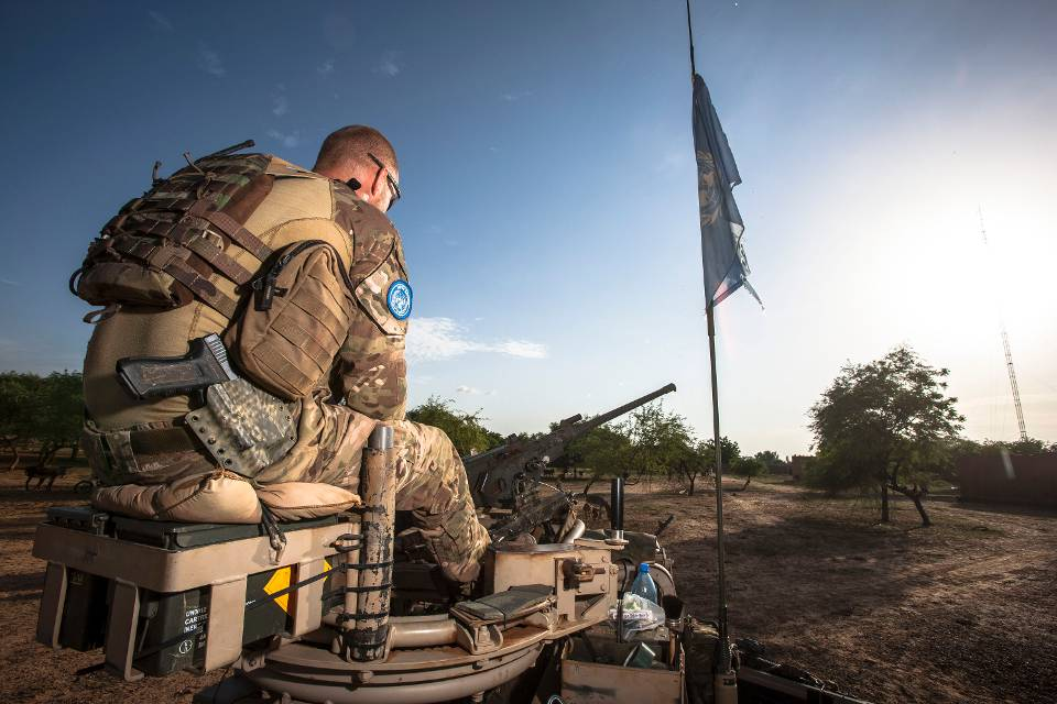 Dutch MINUSMA troops, UN mission Mali 01